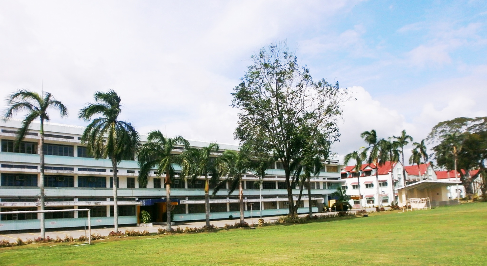 CPU Engineering Building